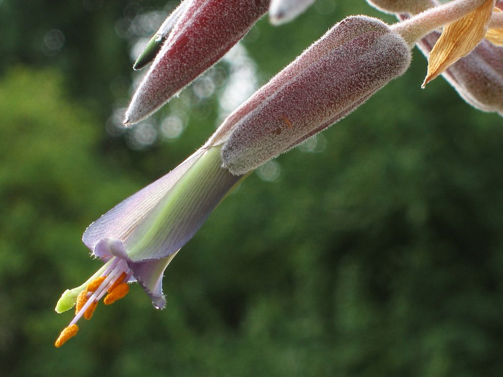 Puya sanctae-crucis, in cultivation at the Botanical Garden of Heidelberg, Germany.